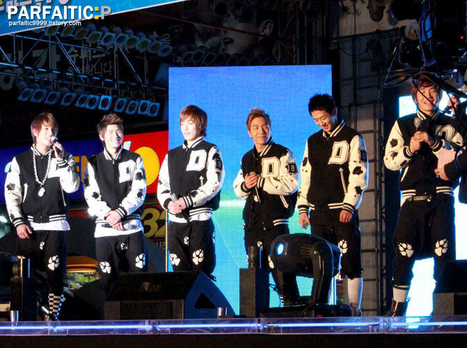 Dalmatian performing at the Toona Shopping Mall in Bucheon on December 17, 2010.